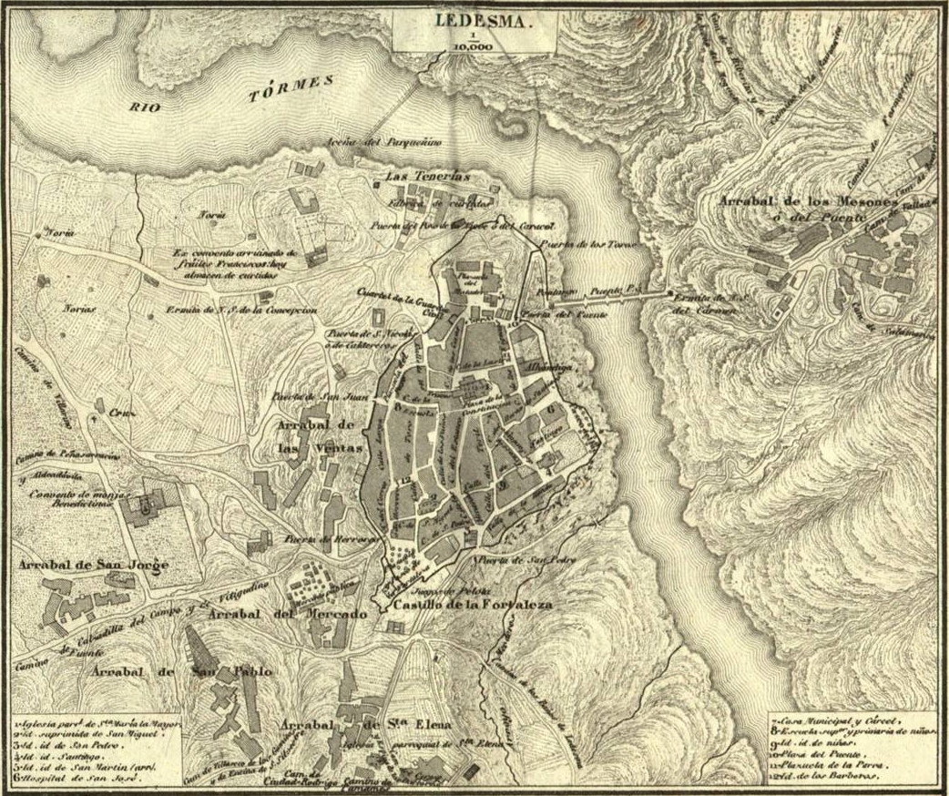 Map of Ledesma cropped from the 1867 province of Salamanca map by Francisco Coello